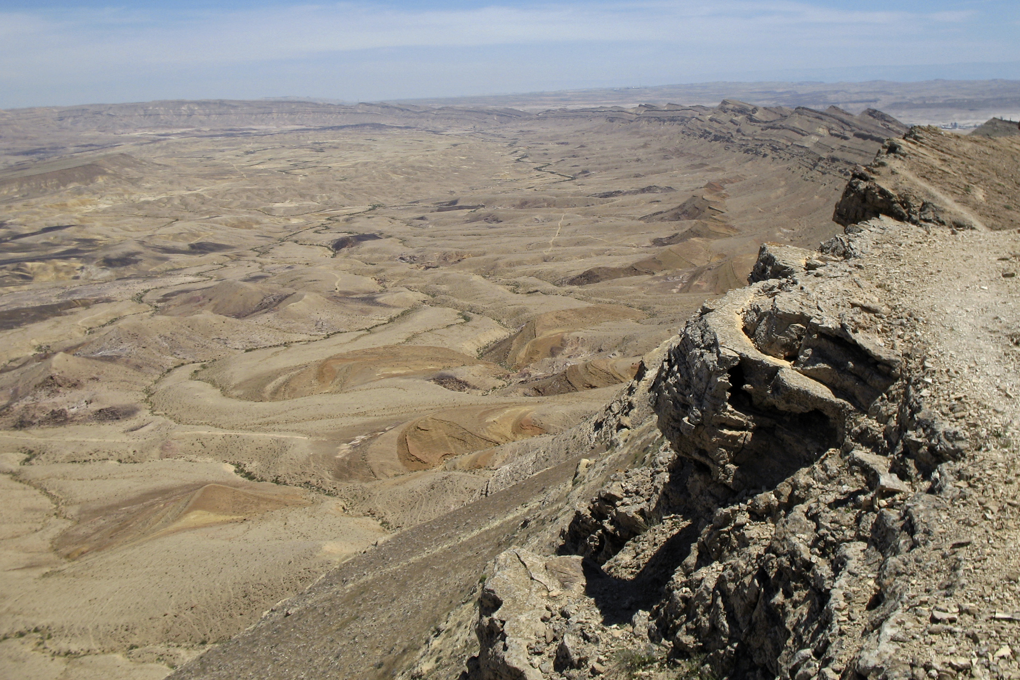 View from Makhtesh Gadol's southern "Ribs", AKA "Hakarbolet".